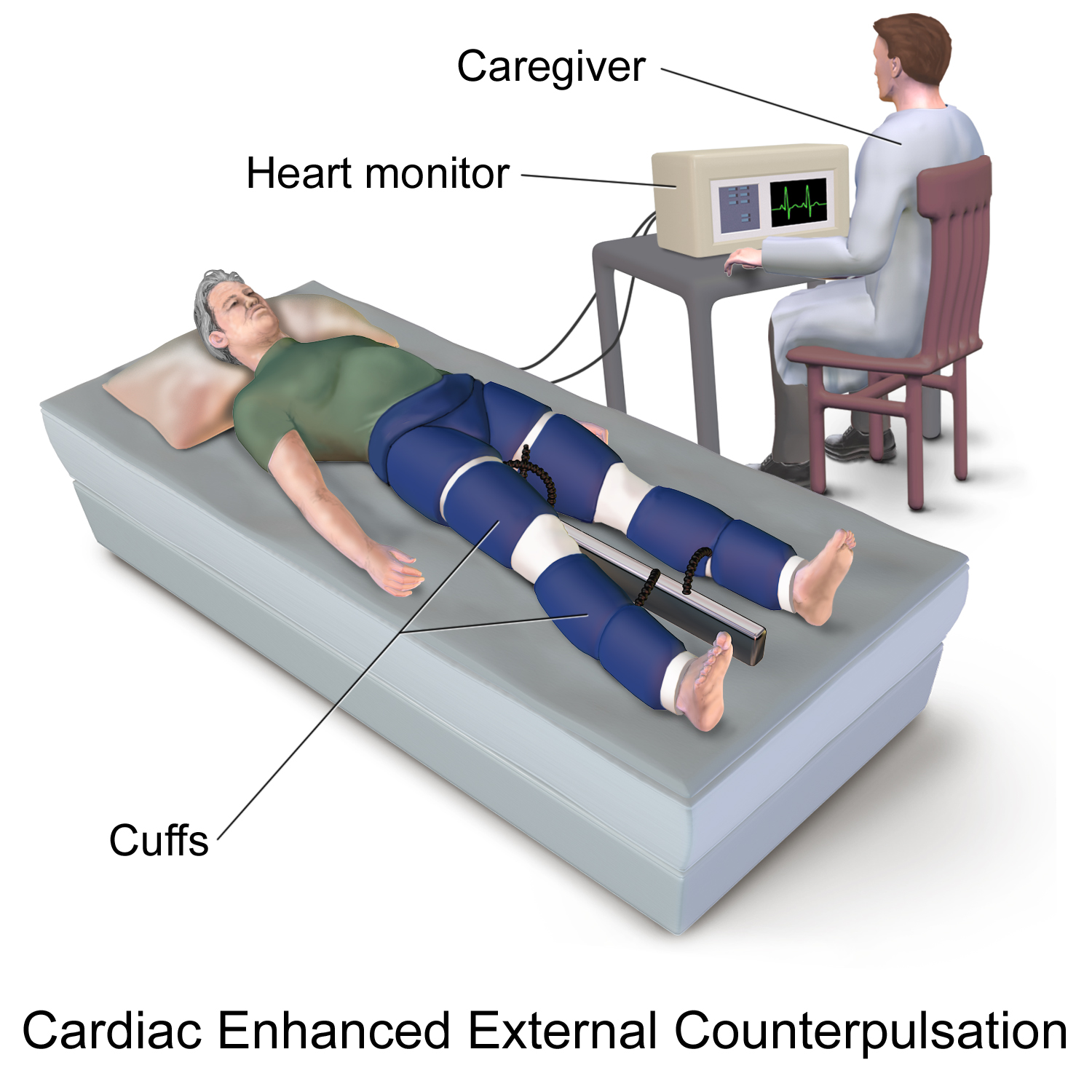 Cardiac Enhanced External Counterpulsation. This image was donated by Blausen Medical. Please visit our website to see more medical illustrations and animations.